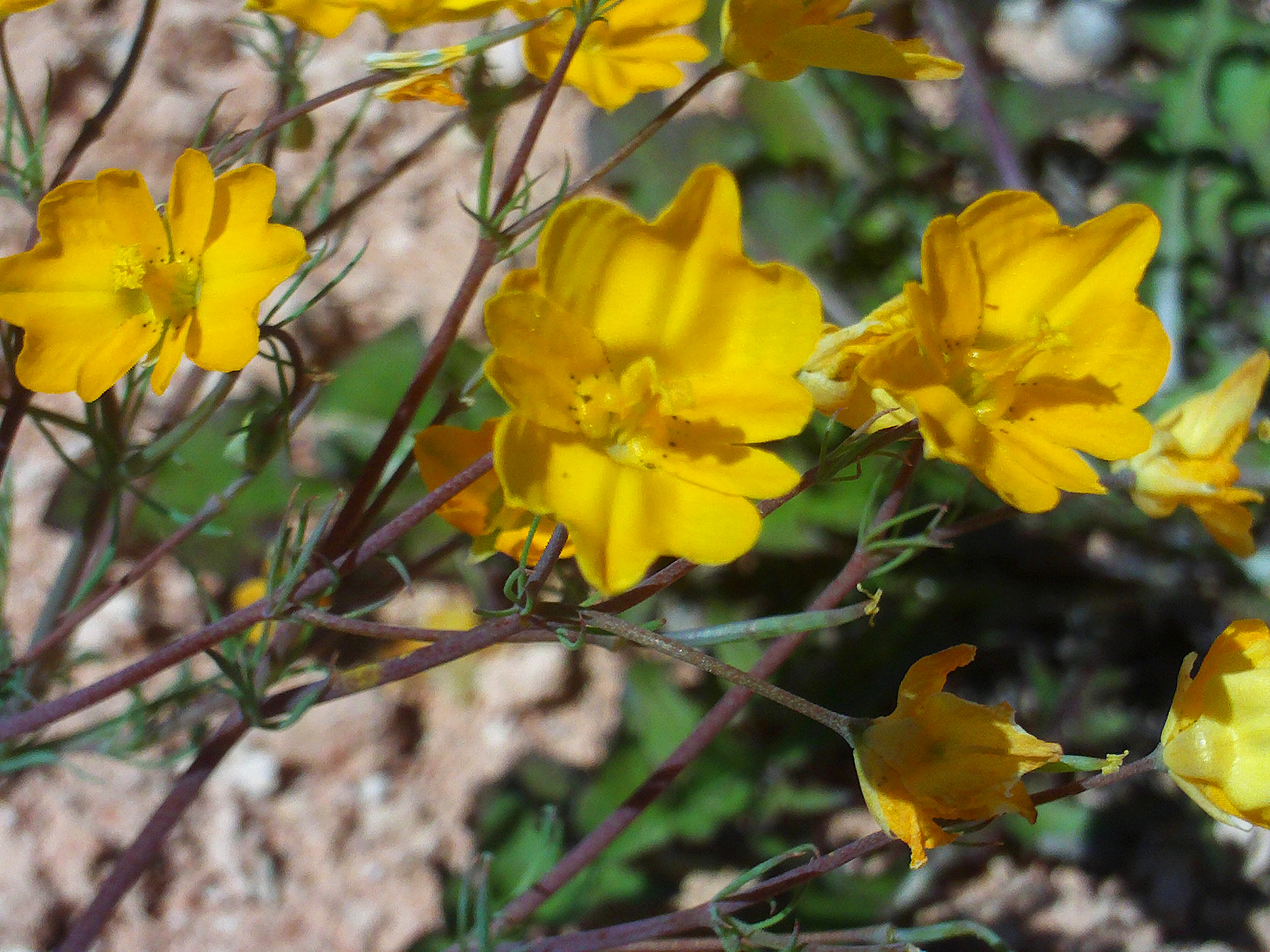 Hypecoum procumbens Flowers Close up Campo de Calatrava, Spain